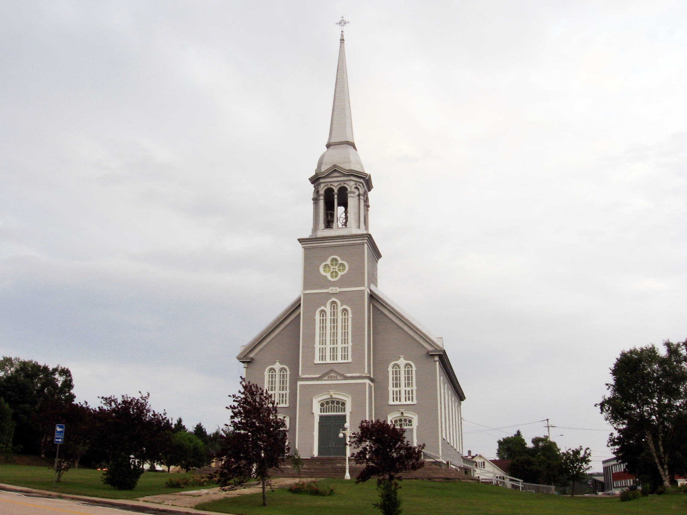 Les bergeronnes church